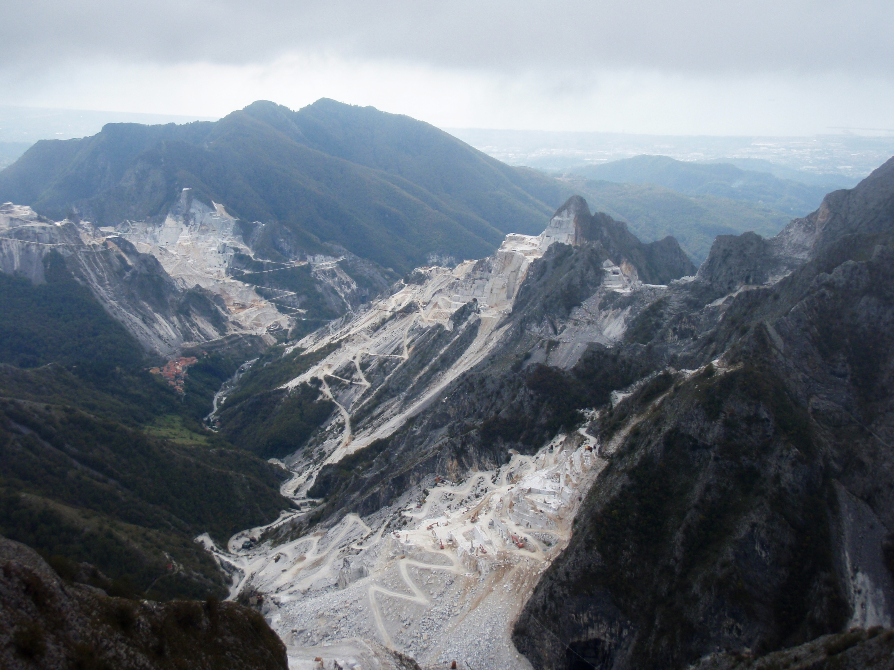 Colonnata as seen from North/East